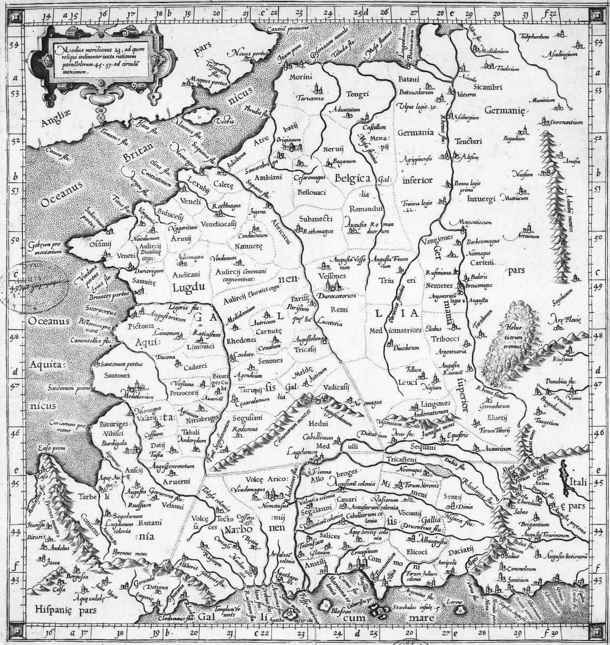 The 3rd European Map (Tertia Europae Tabula) from a 1578 edition of Ptolemy's Geography.